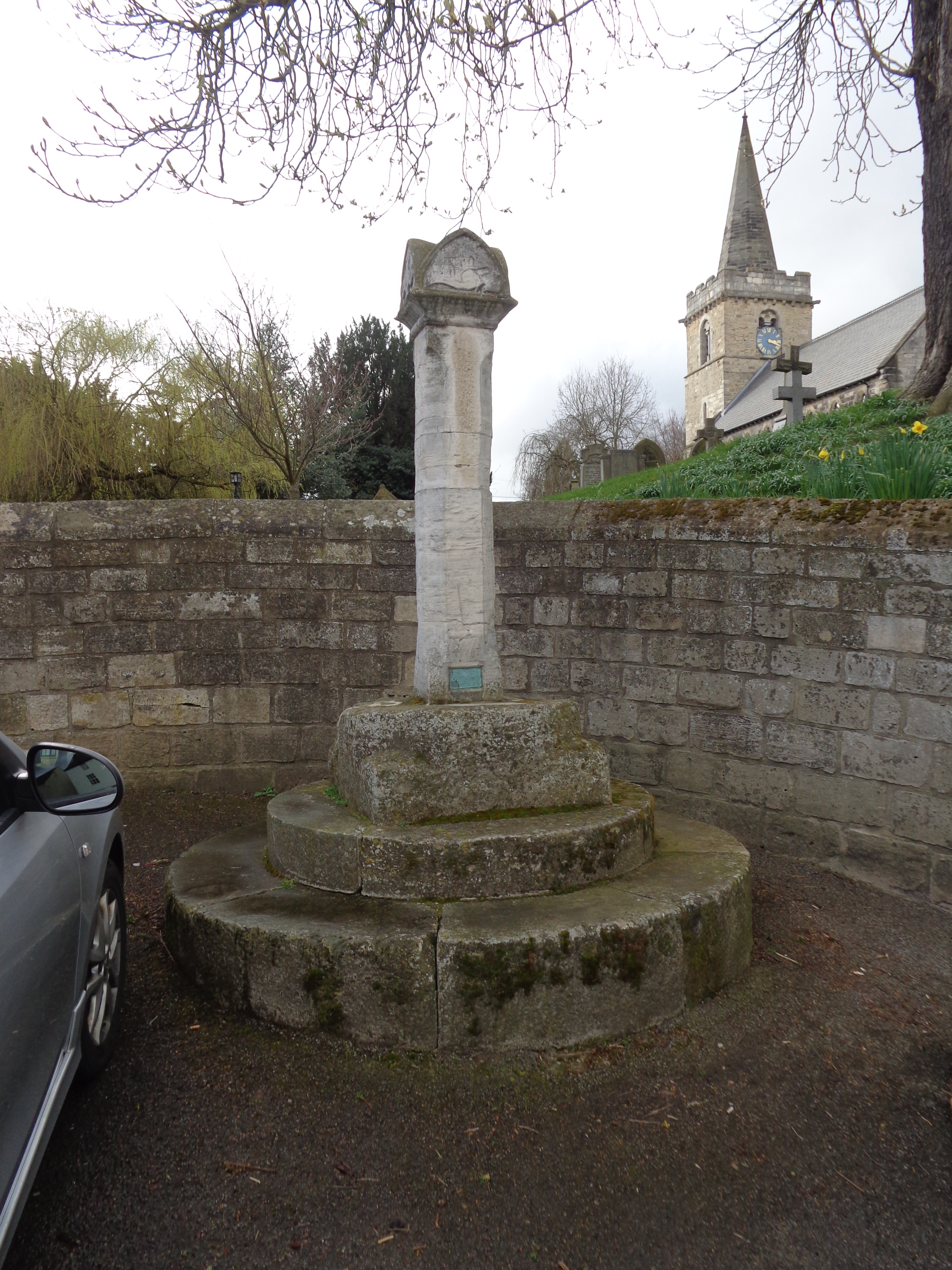 St. Ricarius Church, Aberford, Leeds, West Yorkshire. Taken on the afternoon of Saturday the 22nd of March 2014.